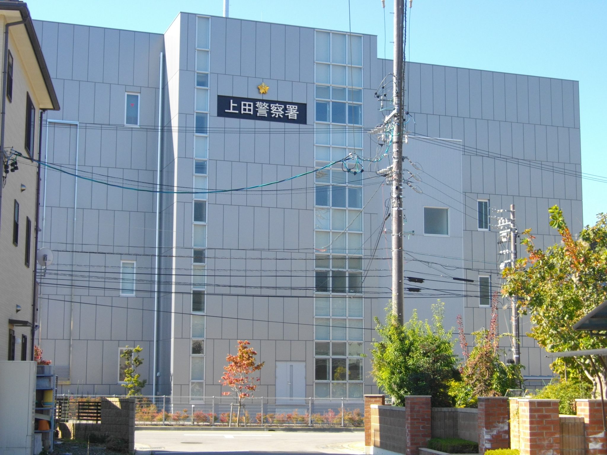 Ueda Police Station